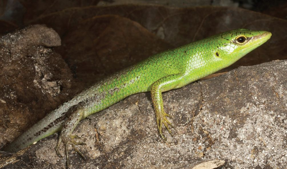 Lamprolepis cf. smaragdina. Male from Loré 1, Lautém District.